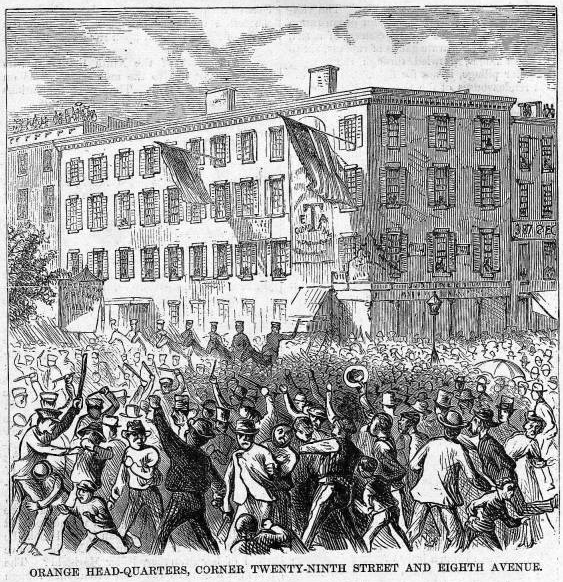 A contemporary drawing depicting Lamartine Hall, the headquarters of the Orangemen, during the Orange riot of July 12, 1871